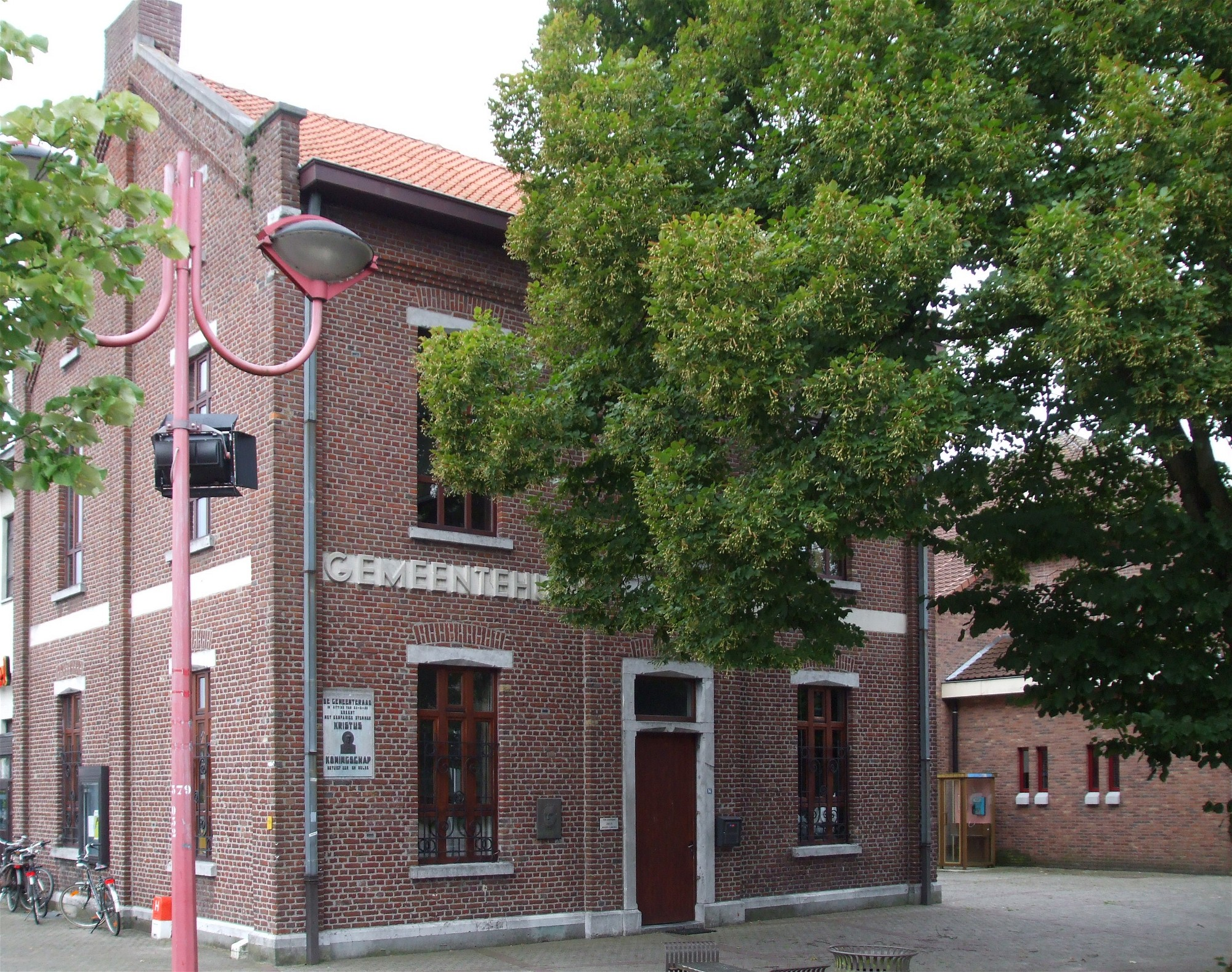 former town hall in Helchteren